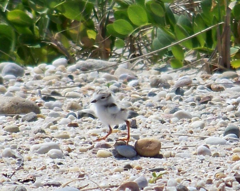 2 day old Piping Plover chick found at Kings Point in East Hampton, NY